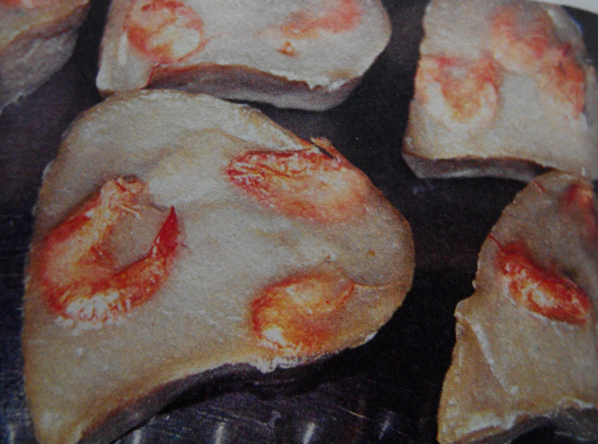 a traditional snack in Chaoshan area